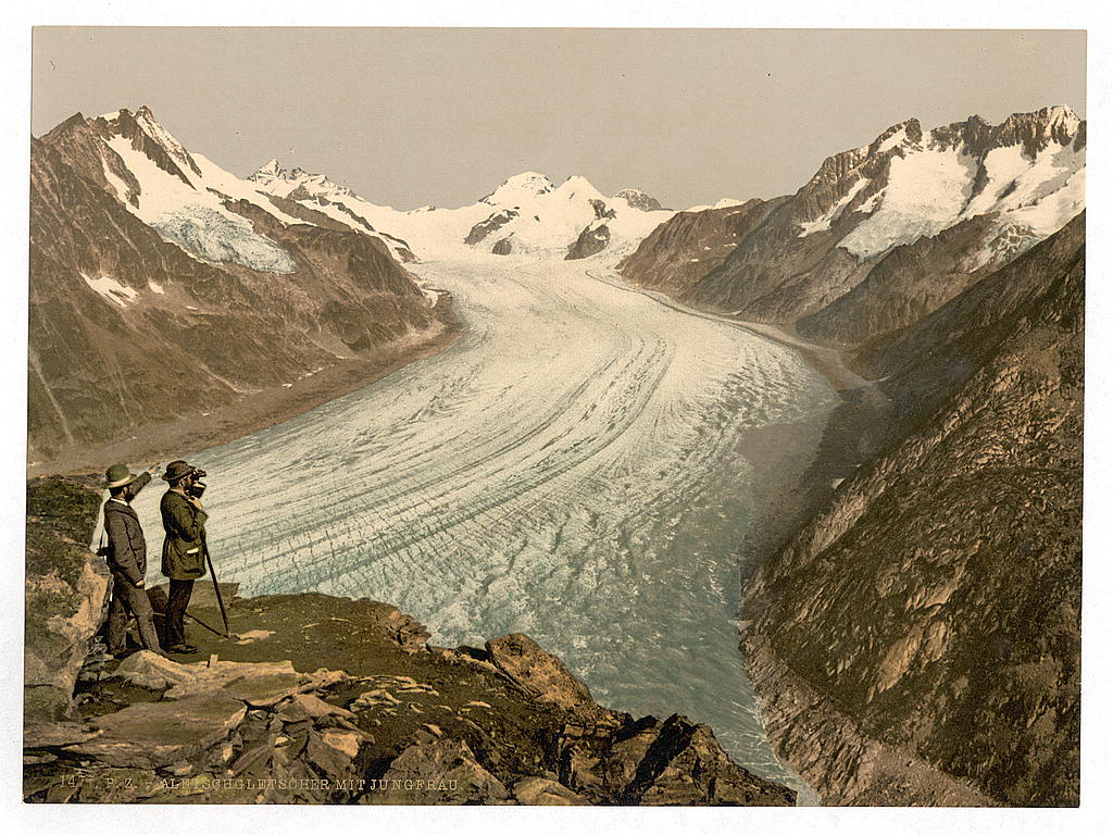 View of Aletsch Glacier from Eggishorn